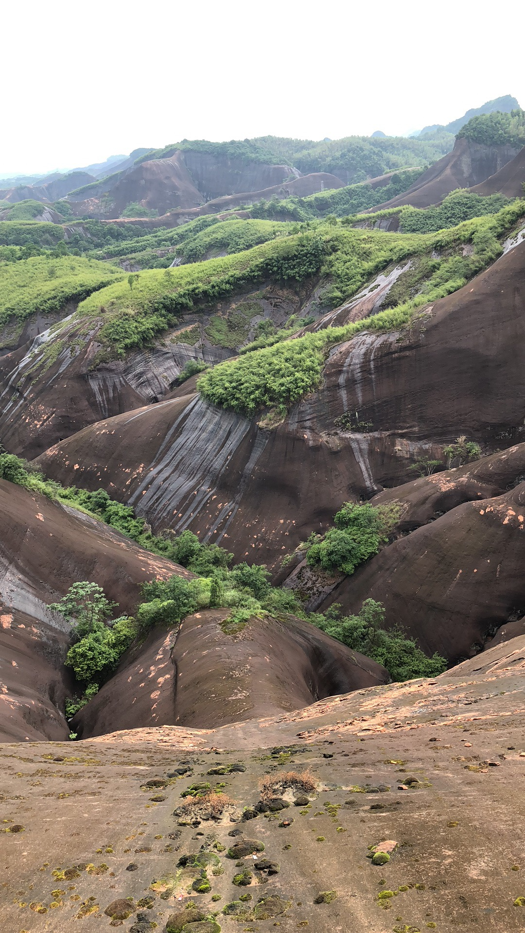 Mount Gaoyiling in Chenzhou, Hunan, China.